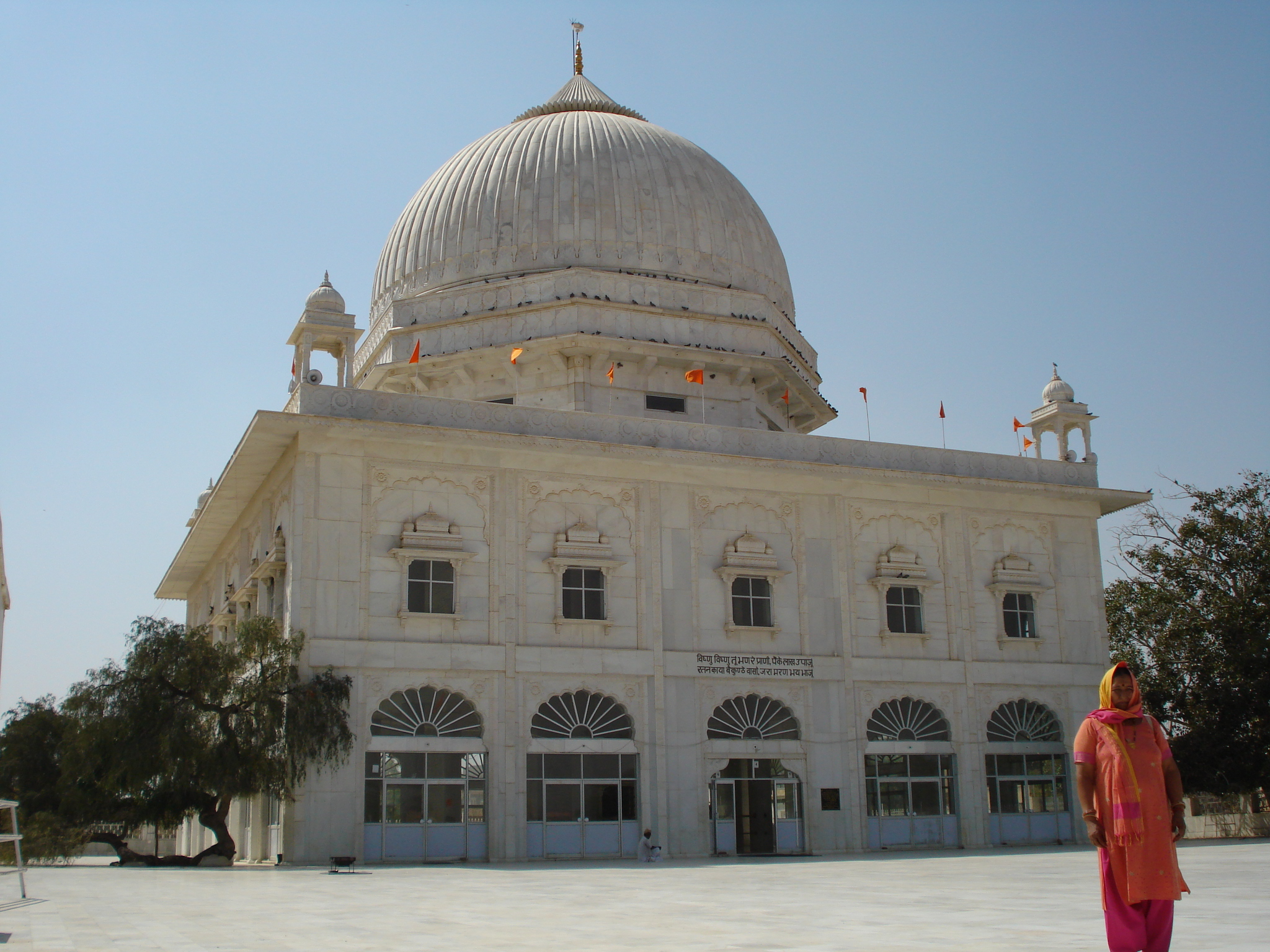 Tomb of Jambhoji Dham at Mukam in Bikaner district Rajasthan